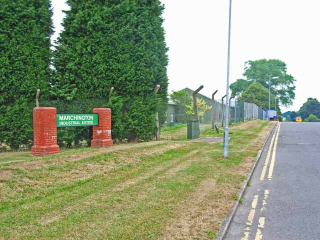 Marchington Industrial Estate. Looks as if it may have been sited on an old airfield